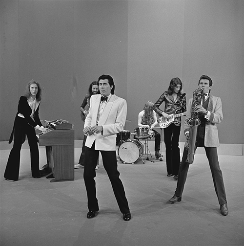 Roxy Music in AVRO's TopPop (Dutch television show) in 1973